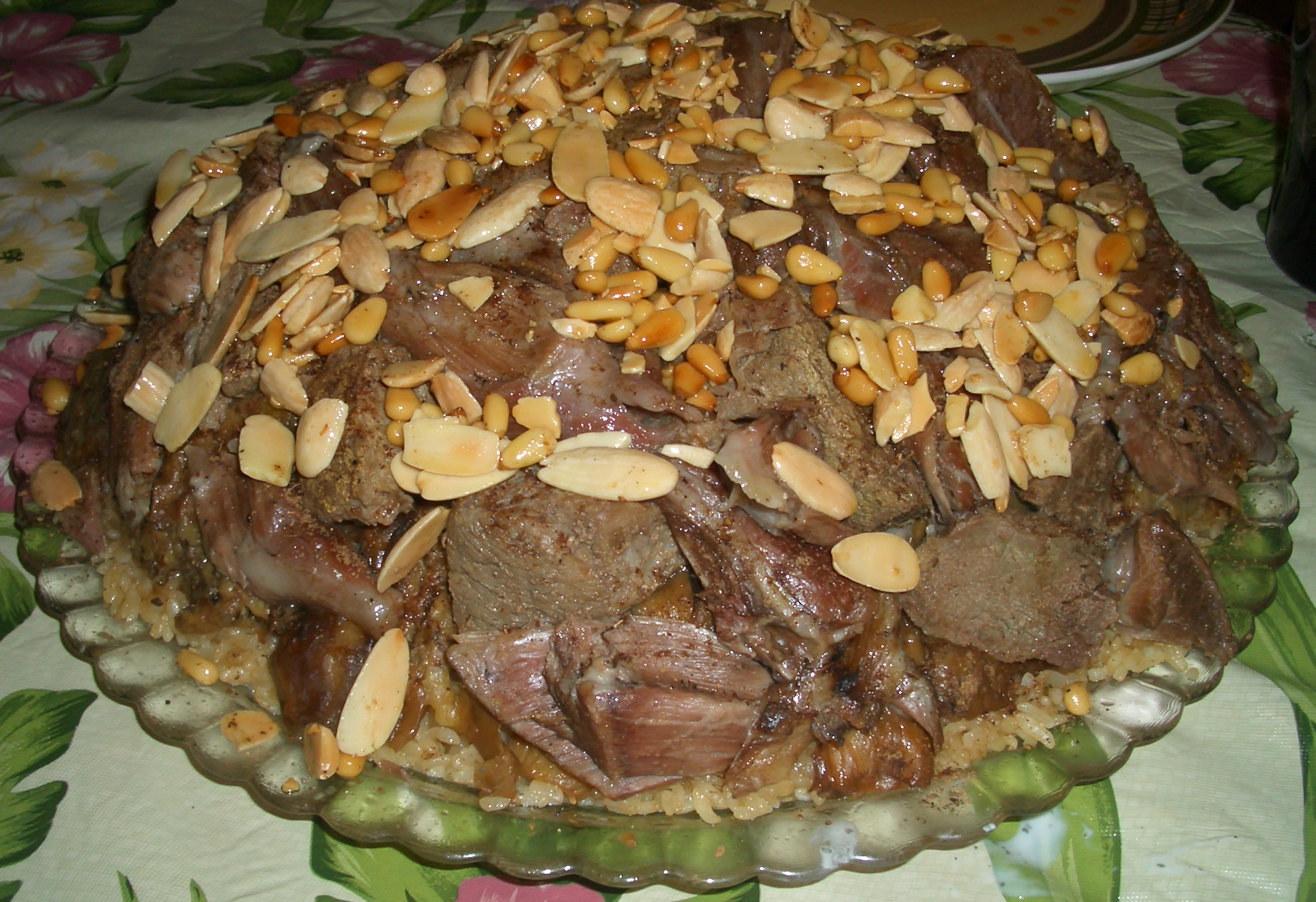 Maqluba